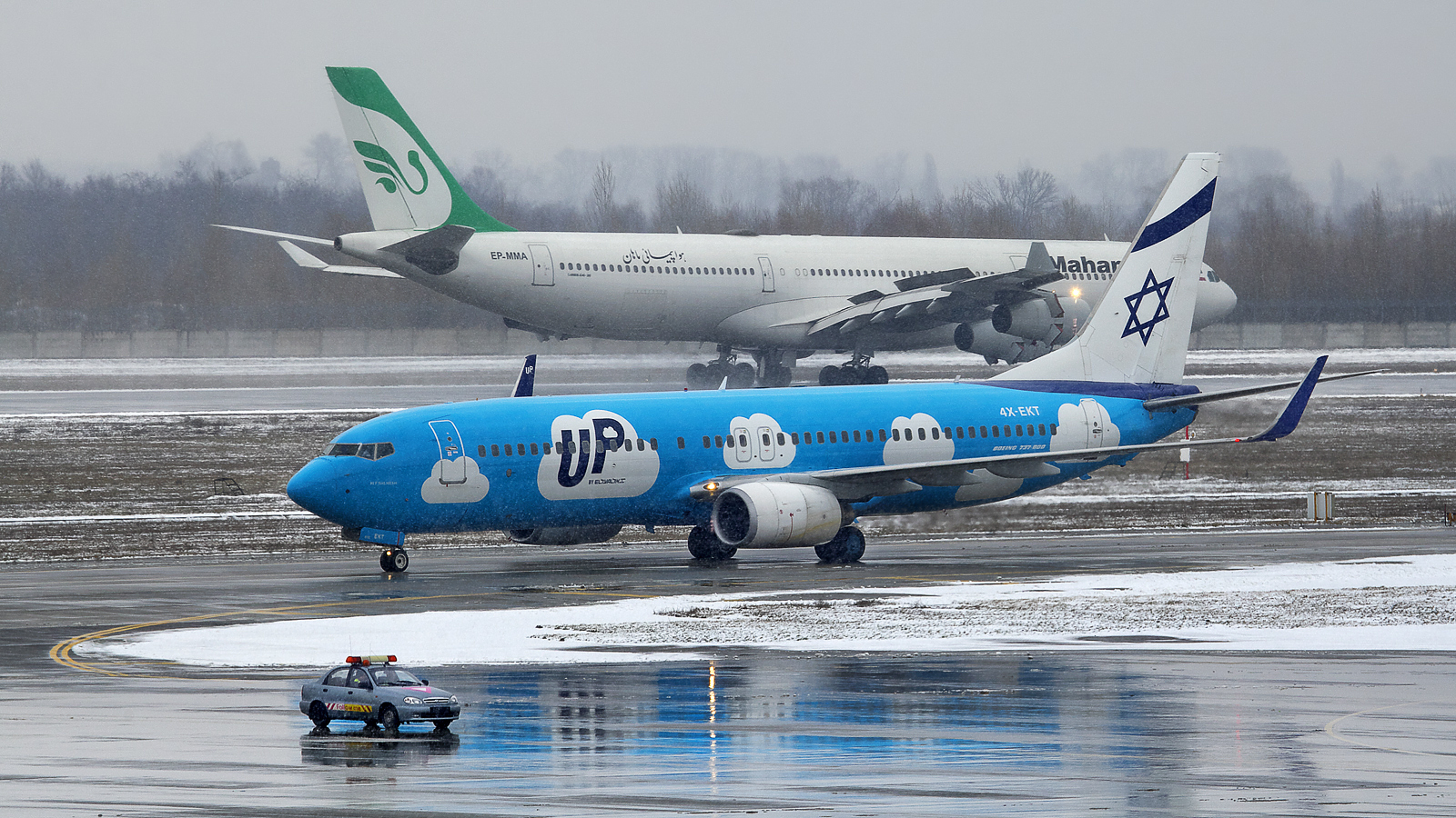 Up! Boeing 737-800 and Mahan Air Airbus A340-300 at Kyiv Boryspil Airport